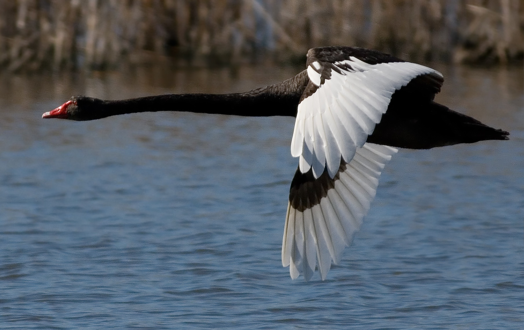 Black Swan (Cygnus atratus) in flight at Gould's Lagoon, Tasmania, Australia Camera data Camera Canon EOS 400D Lens Canon EF 400mm f5.6L Focal length 400 mm Aperture f/5.6 Exposure time 1/4000 s Sensivity ISO 400